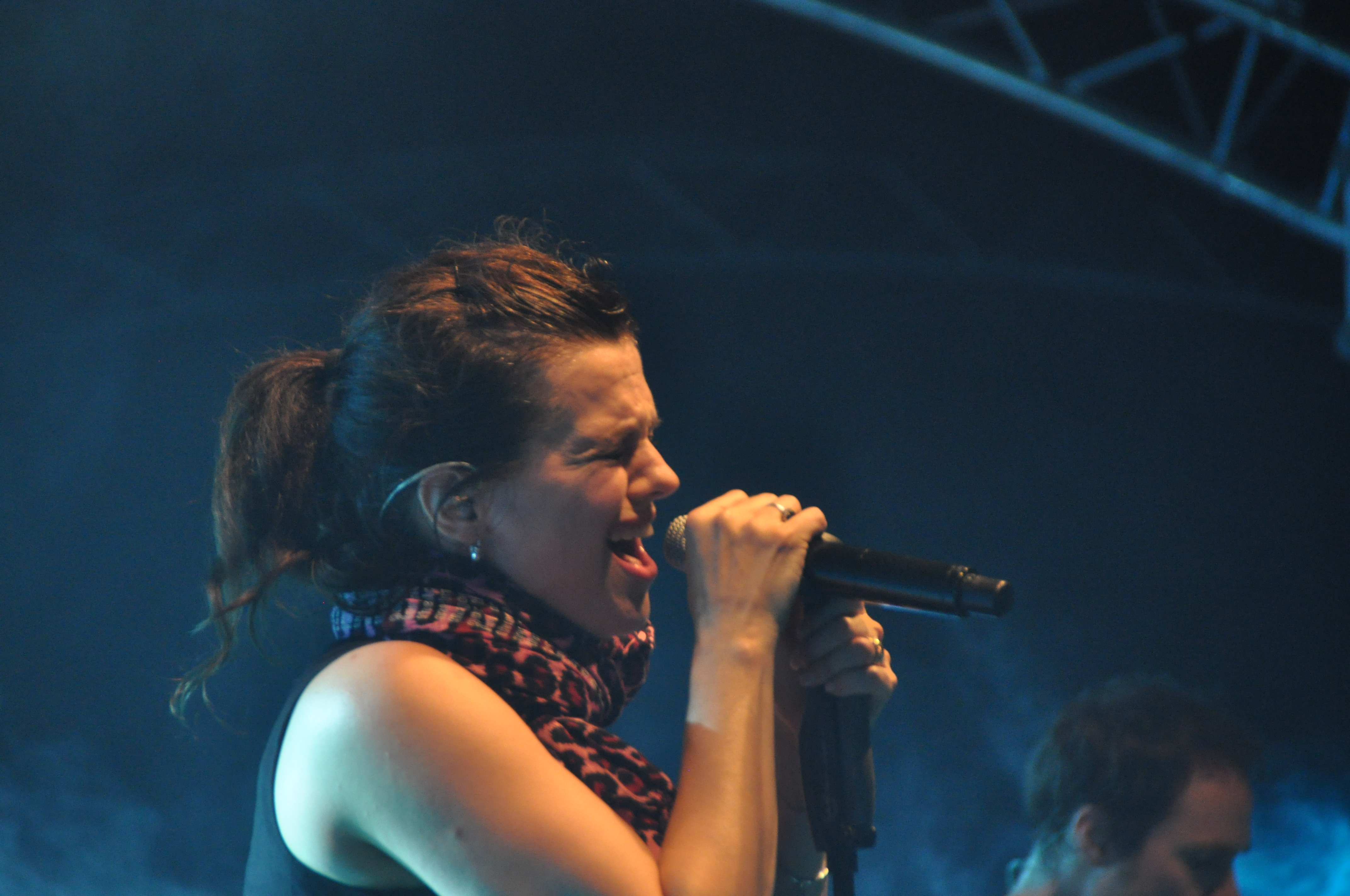 Die Happy, appearence at the 1st blacksheep festival in the castle yard / castle park of Bad Rappenau - Bonfeld (Germany)